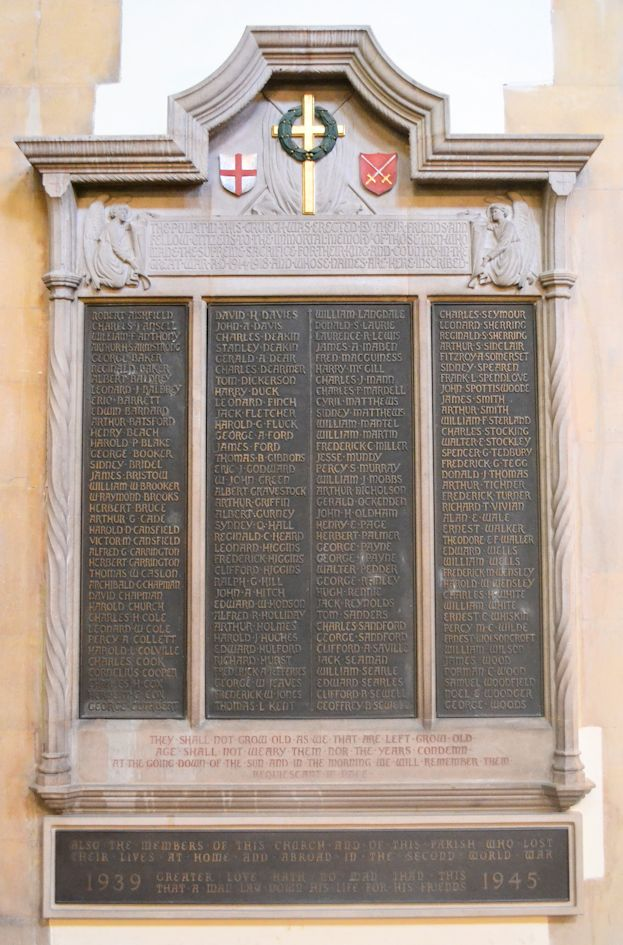 Designed by Charles Marriott Oldrid Scott following a design competition. Installed in church in 1921. Bronze panels and Hopton Wood Limestone. Lists 146 men who fell during WW1.